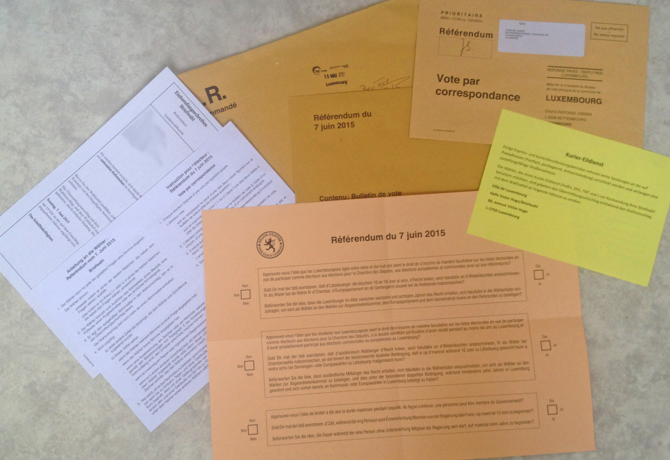 Voting ballot and other documents for the postal vote for the referendum on June 7, 2015, in the Grand-Duchy of Luxembourg.